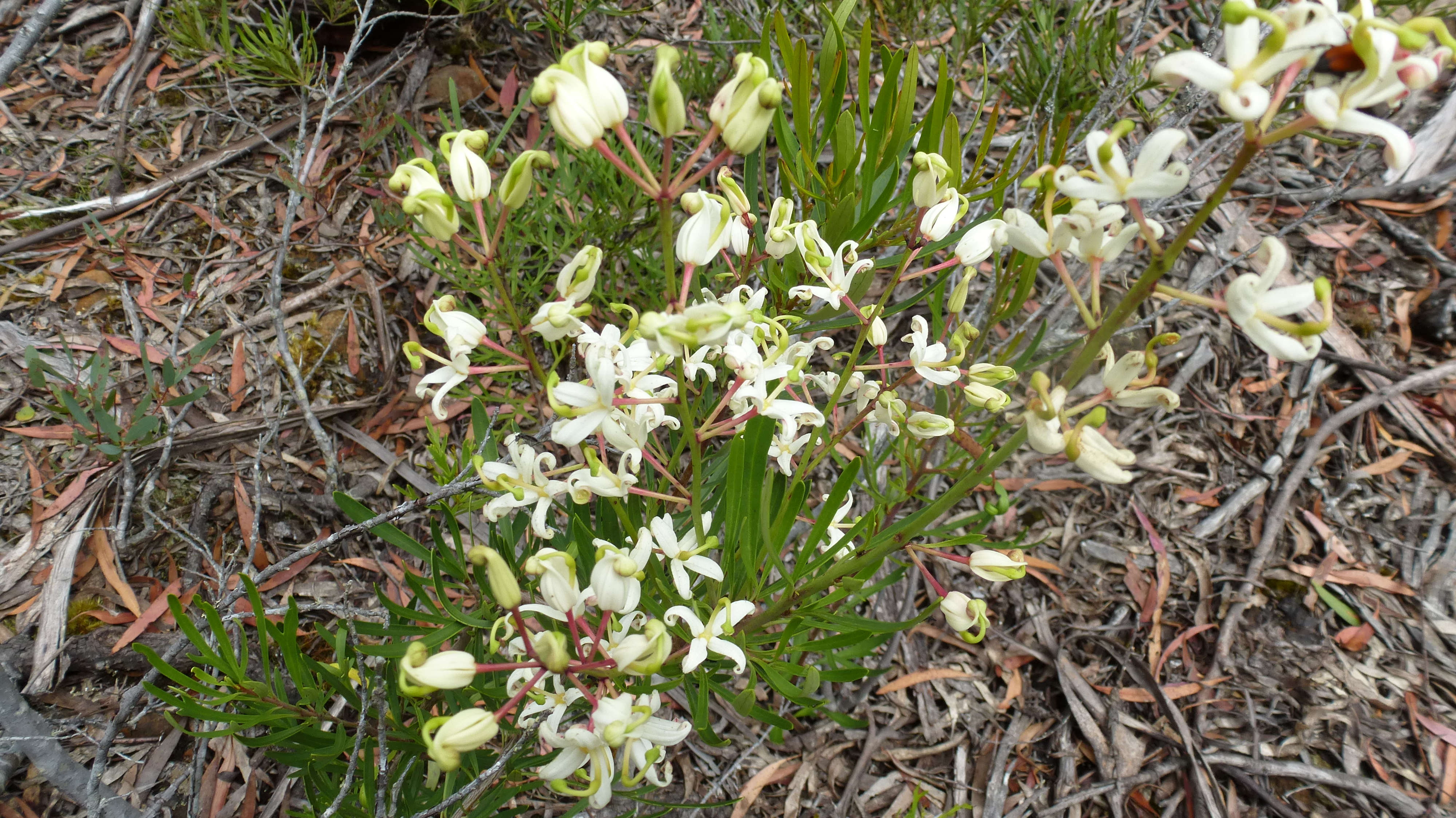 Lomatia tinctoria x polymorpha growing near Lake St Clair.